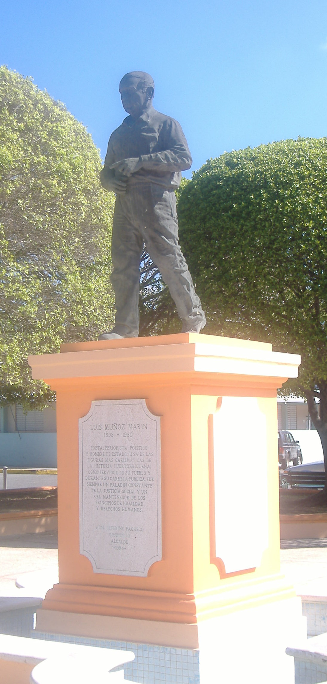 Statue of Luis Muñoz Marín in the public plaza of Guayanilla, Puerto Rico.